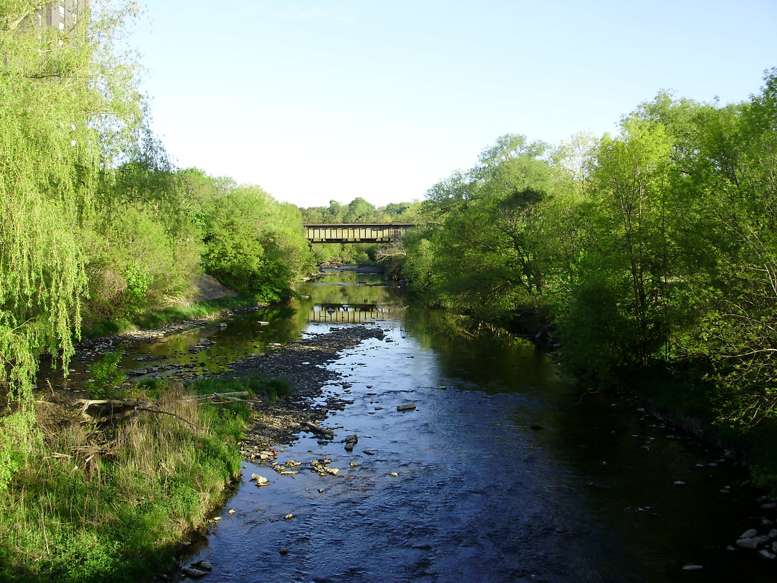 Etobicoke Creek in Toronto, Canada, photographed looking north from Lake Shore Boulevard West. The creek marks the municipal boundary between the cities of Mississauga and Toronto.